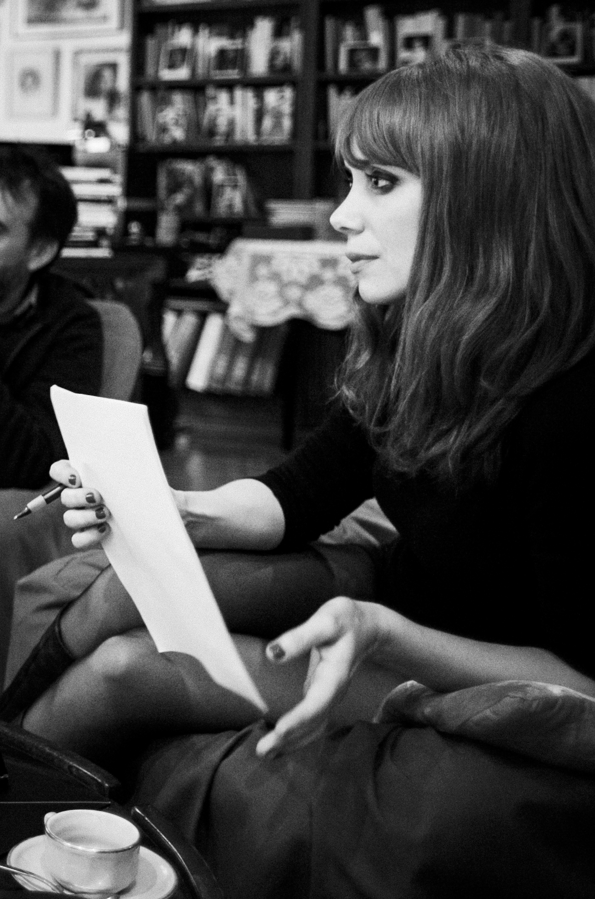 Paula Bonet. Photography by Lupe de la Vallina.